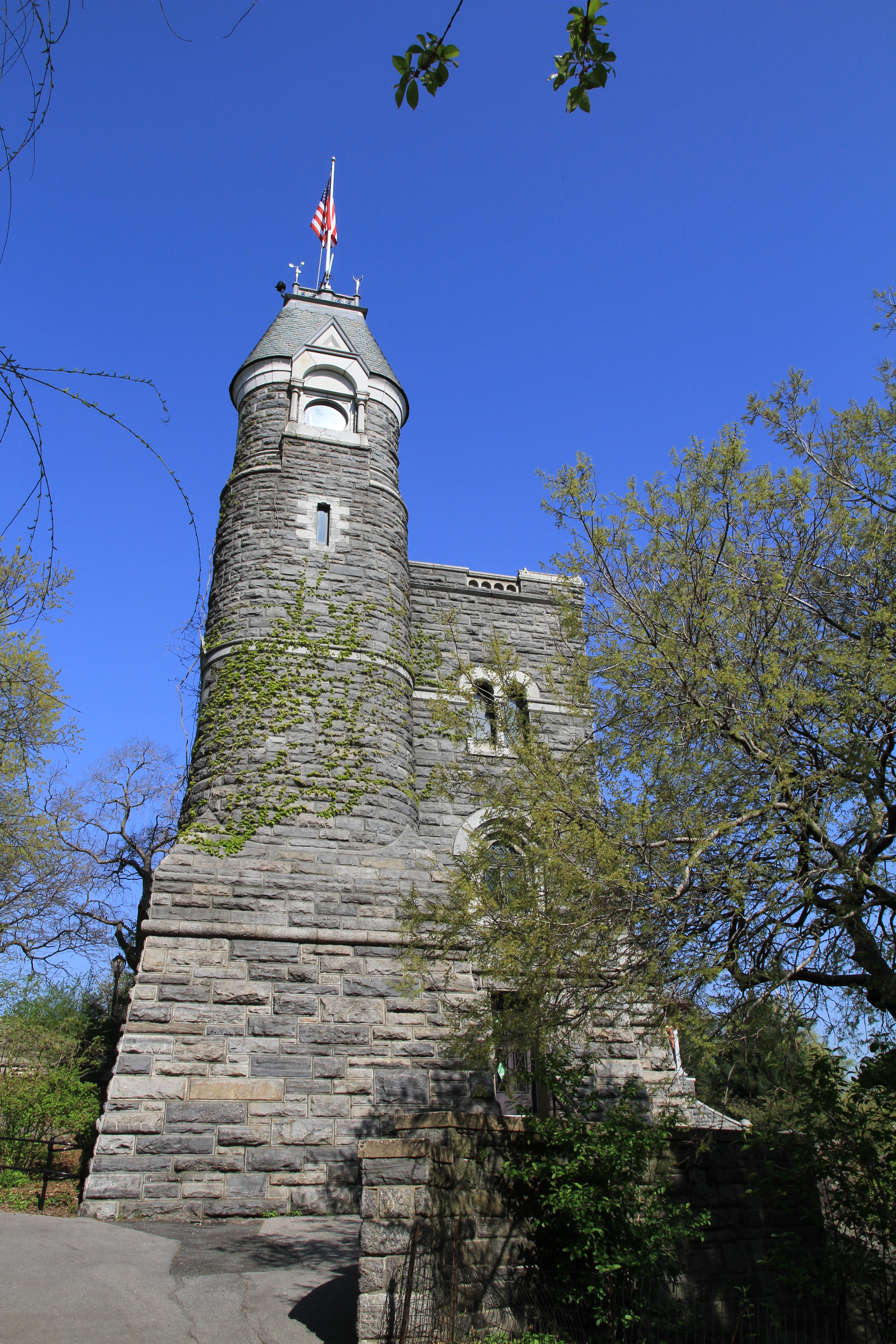 Belvedere Castle tower